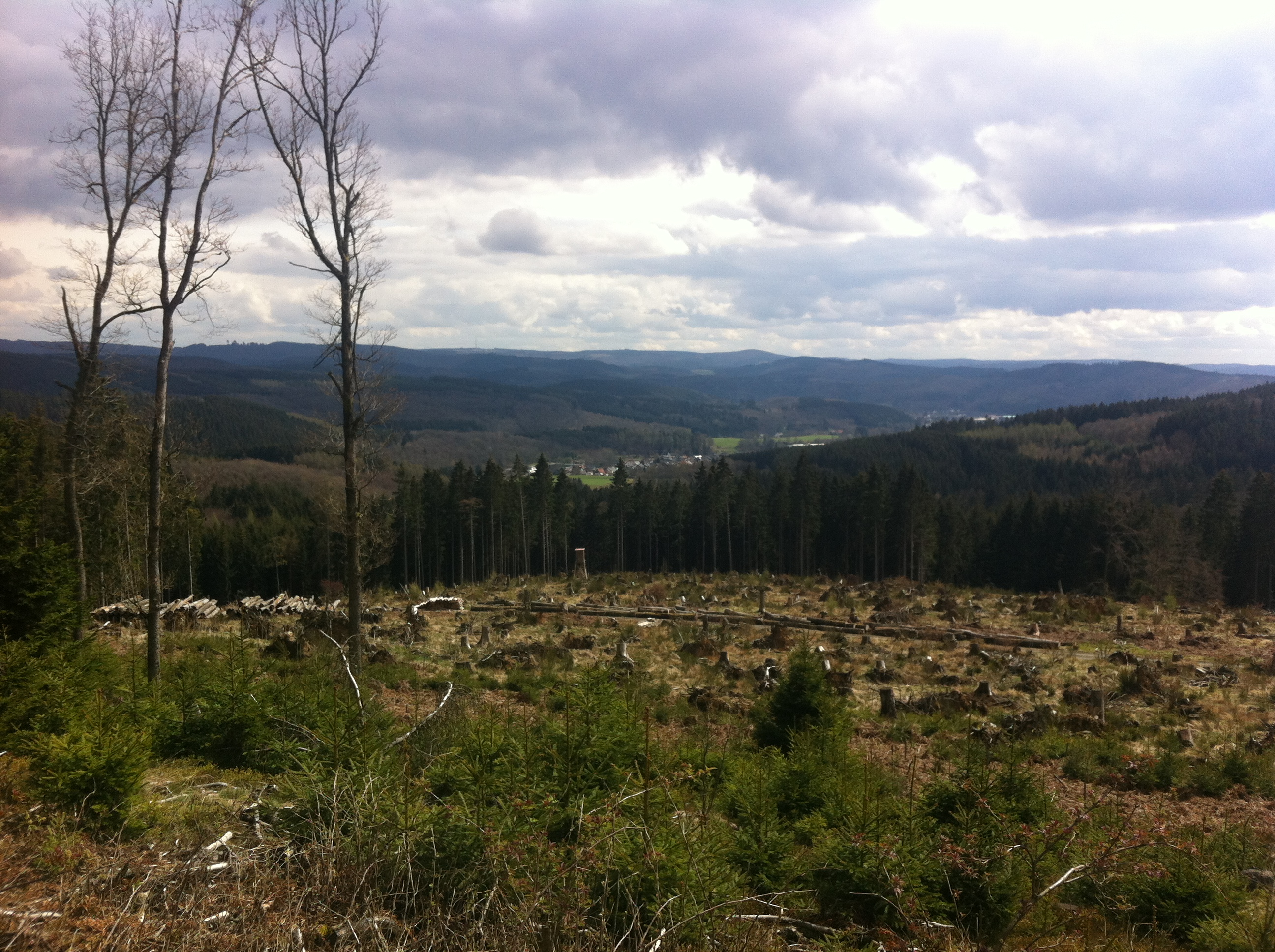 mit Breitenberg und Rothenbachtal (links), Ausläufer der Martinshardt (rechts)